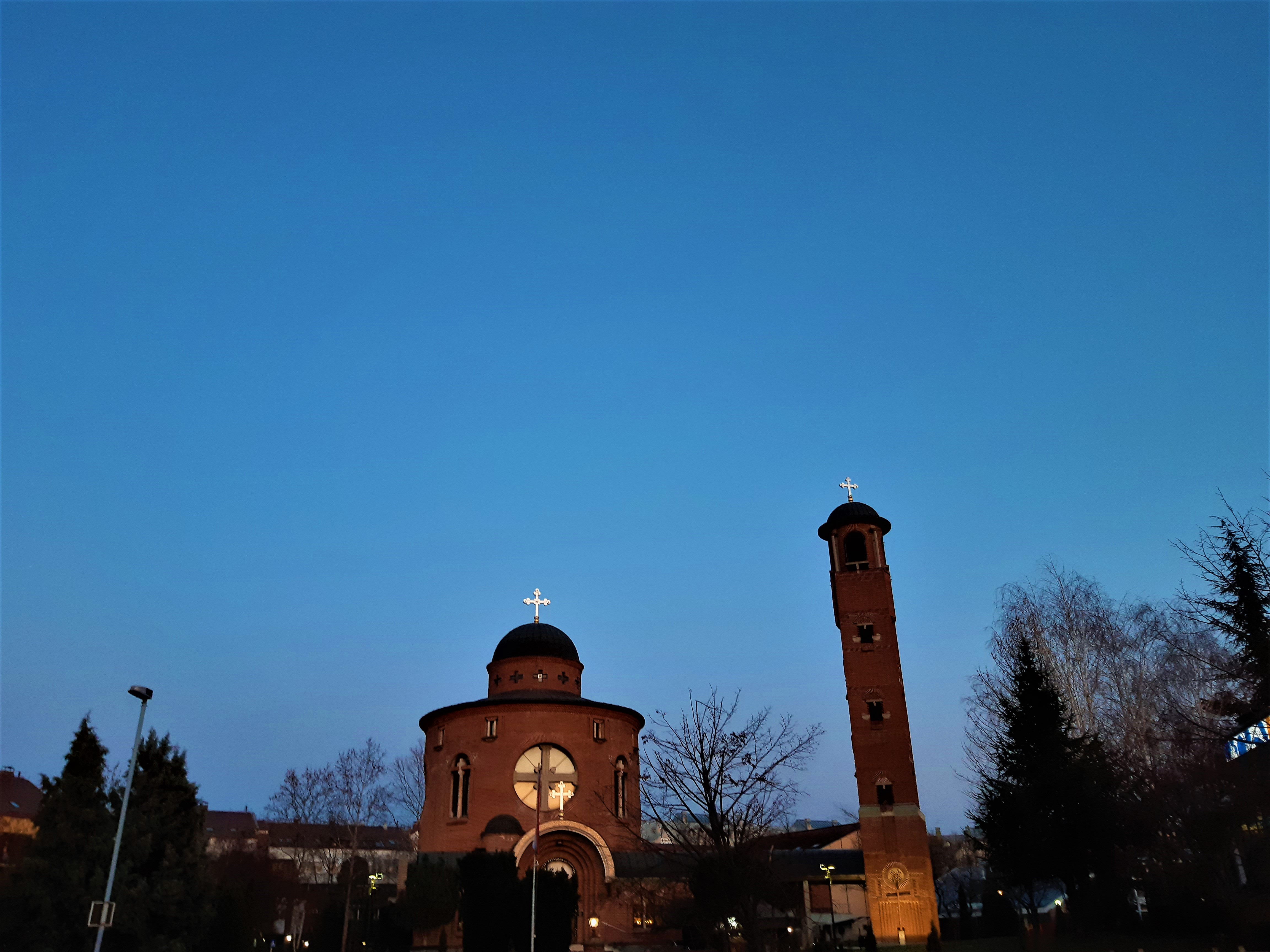 Temple St. Vasilije Ostroshki in Belgrade.